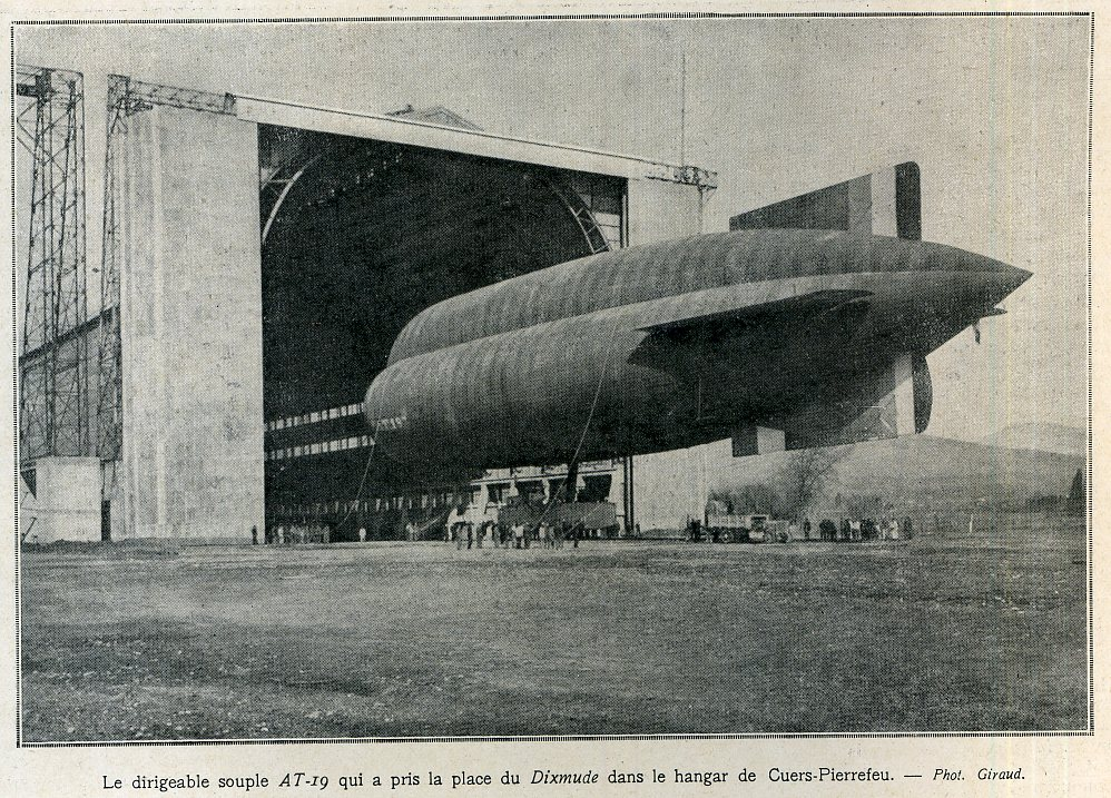 French Dirigeable souple AT-19